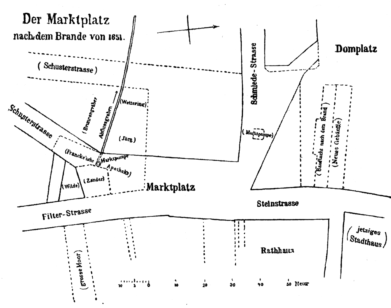 Market place of Schwerin after the conflagration in 1651